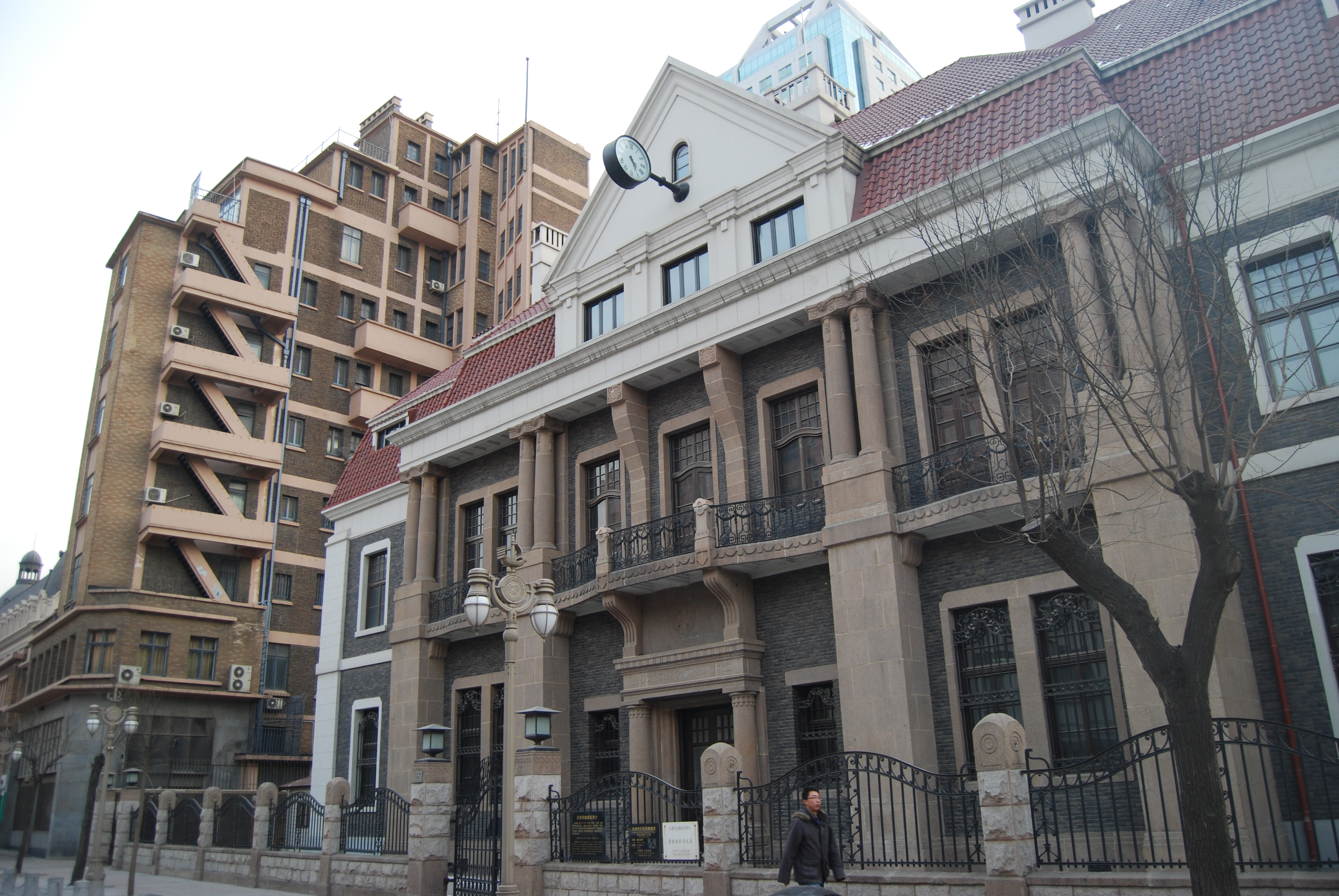 Former Kinchen Bank in Jiefangbei Lu No. 108, and Leopold Building in Heping District, Tianjin